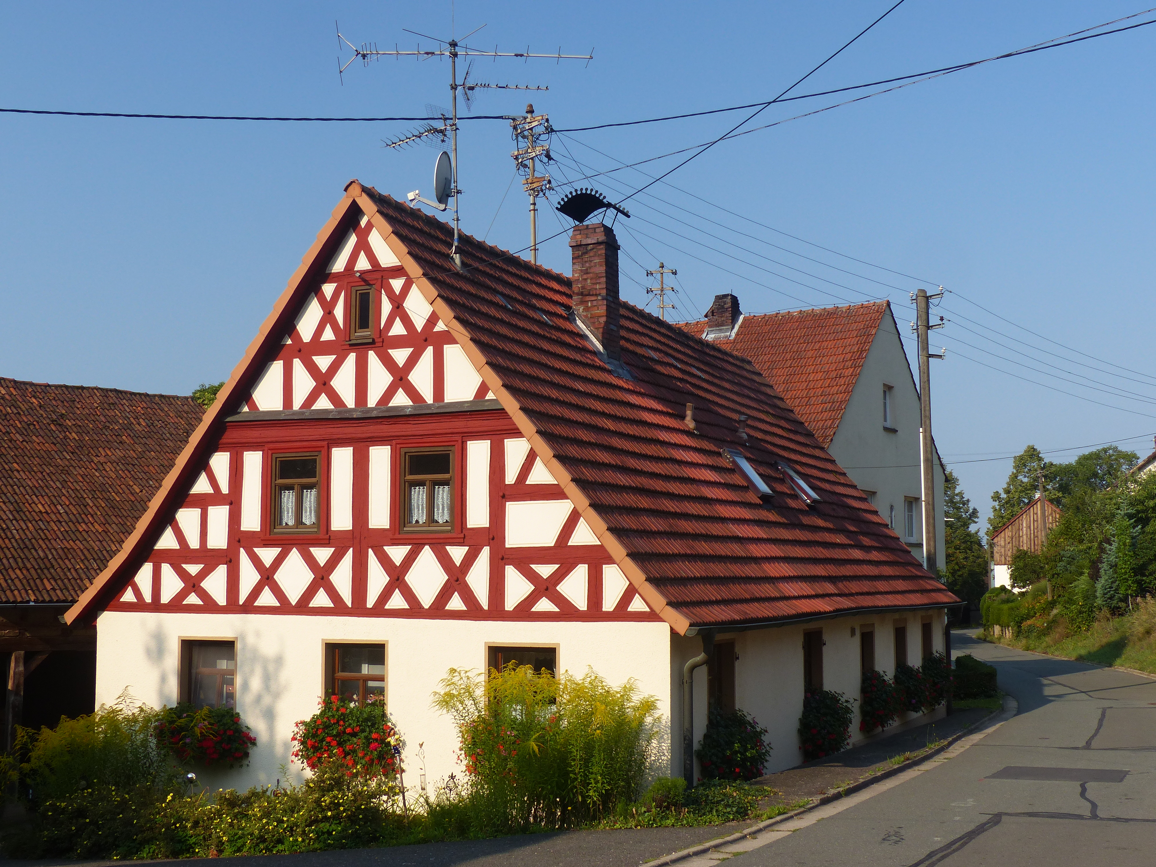 A byre-dwelling in the village Roschlaub, a district of the town of Scheßlitz.